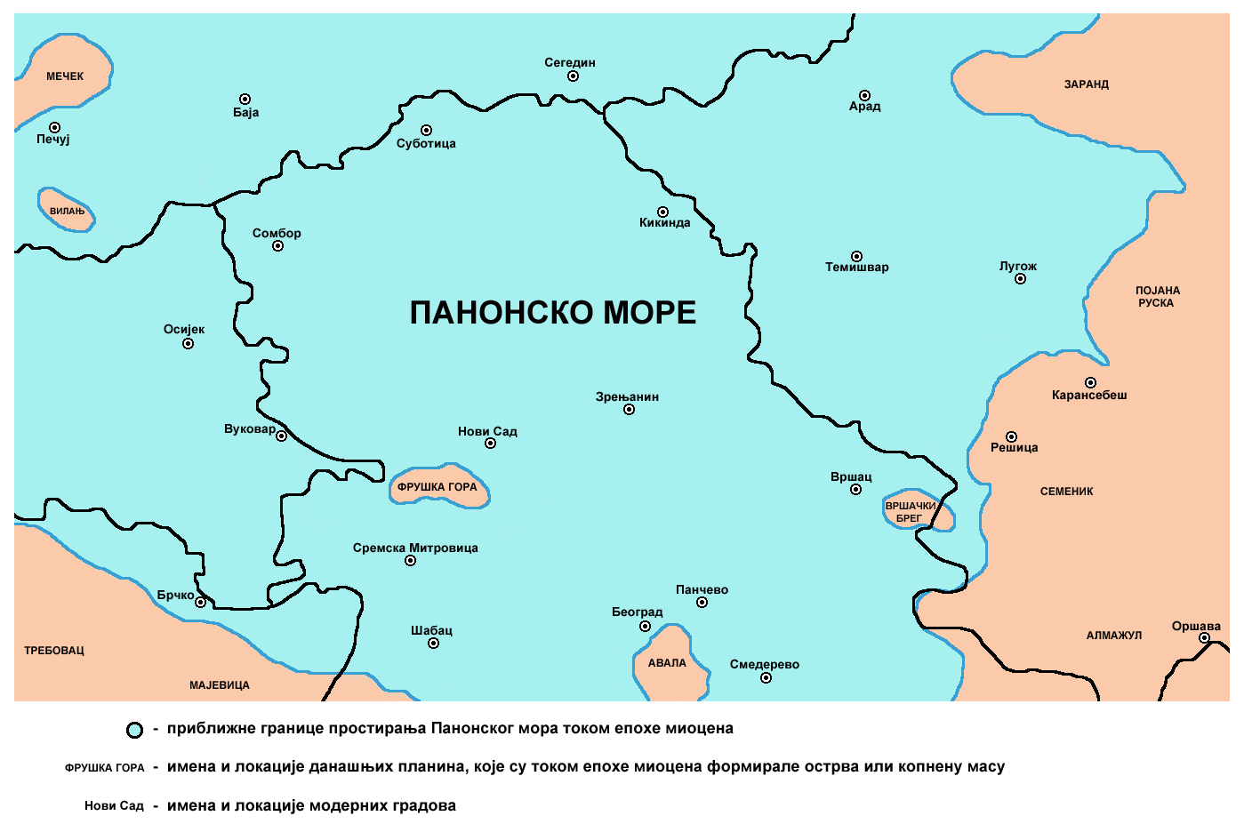 Detailed map of the south-eastern part of Pannonian Sea during the Miocene Epoch.